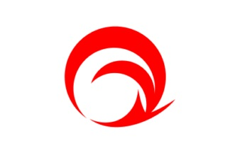 Flag of Matsubushi Saitama